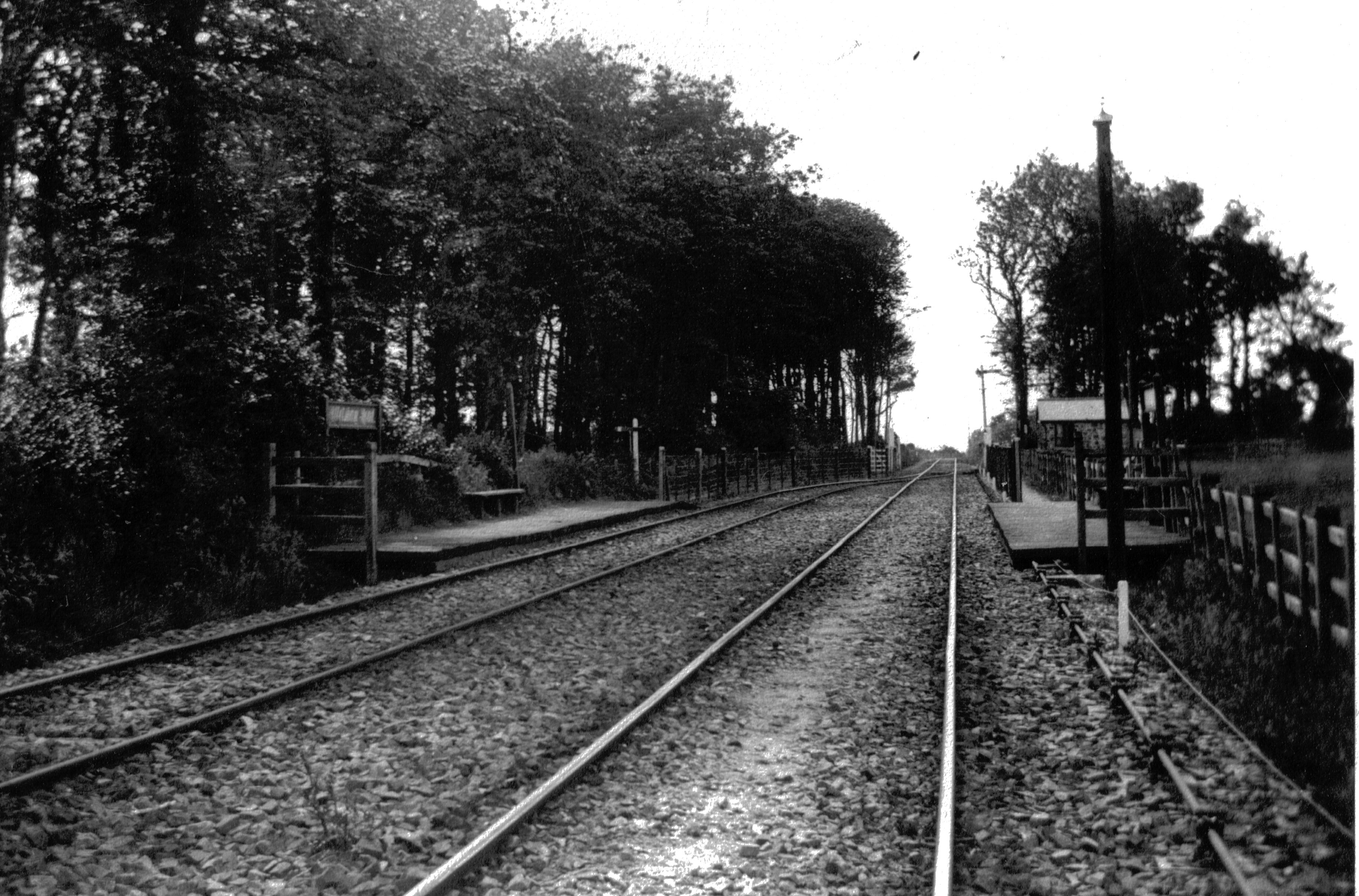 Abbotsham Road railway station, North devon, England